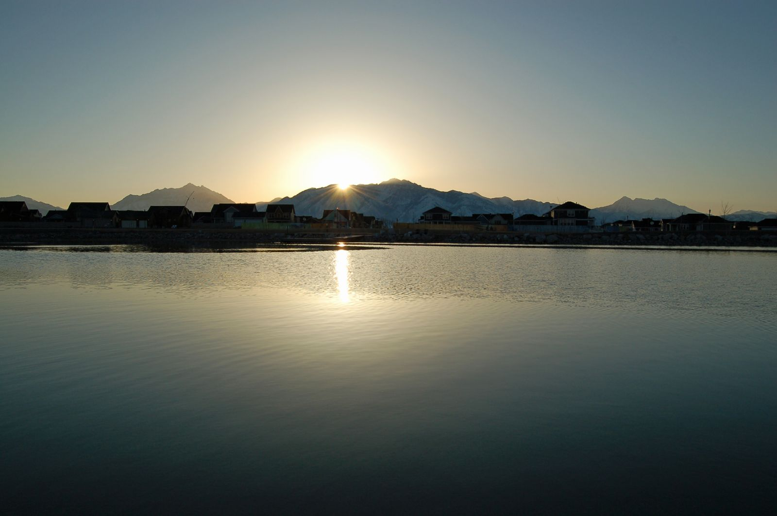 Viewing the sunrise over the Wasatch Mountains from Oquirrh Lake, South Jordan, Utah.